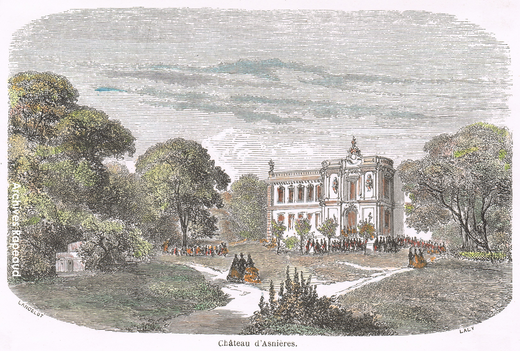 Old engraving print around 1860 of the Château d'Asnières, near Paris, France